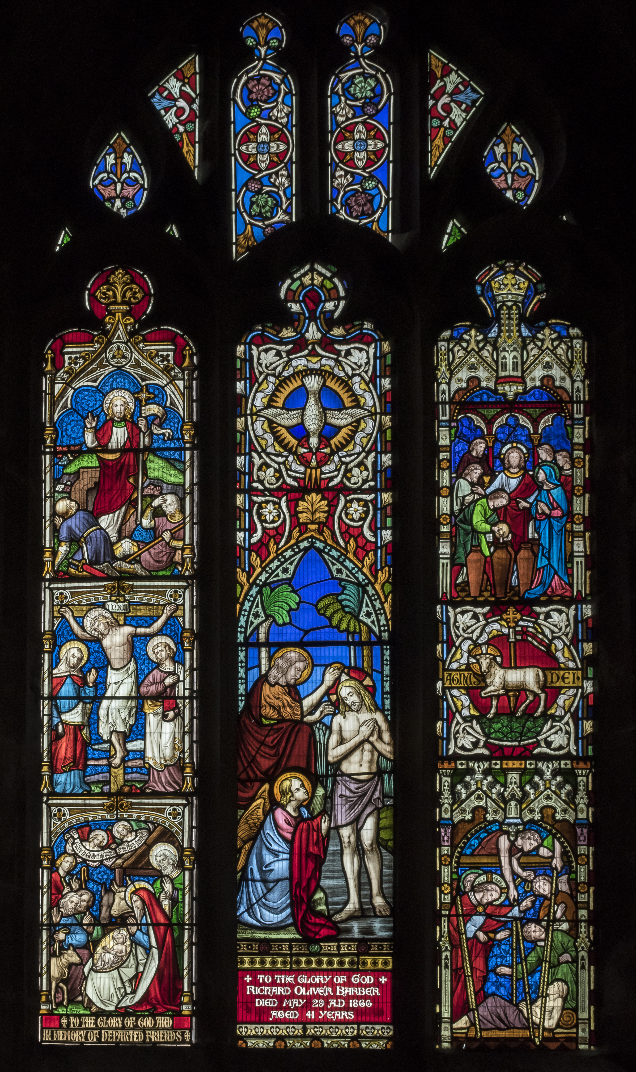 Depicting The Baptism of Christ, surrounded by various scenes from his life. Glass by O'Connor. In memory of Richard O. Barber d. 1866.